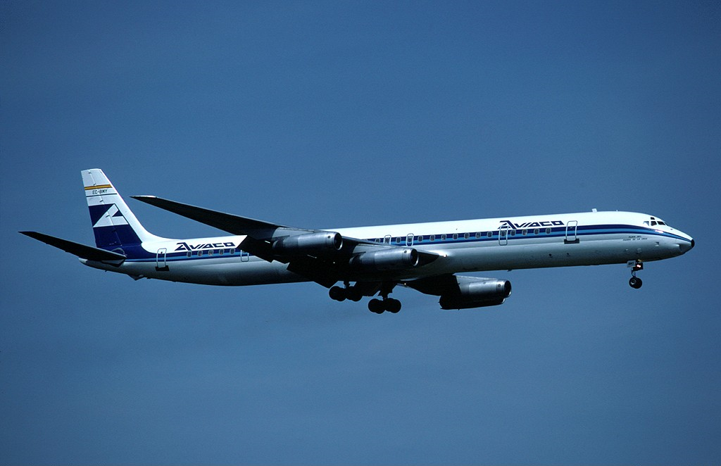 An Aviaco McDonnell Douglas DC-8-63 on short finals to Zurich Airport (ZRH / LSZH)